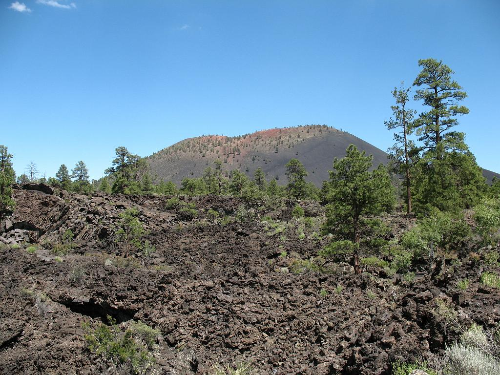 Sunset Crater, Arizona. View from the lava flow at the base of the volcano